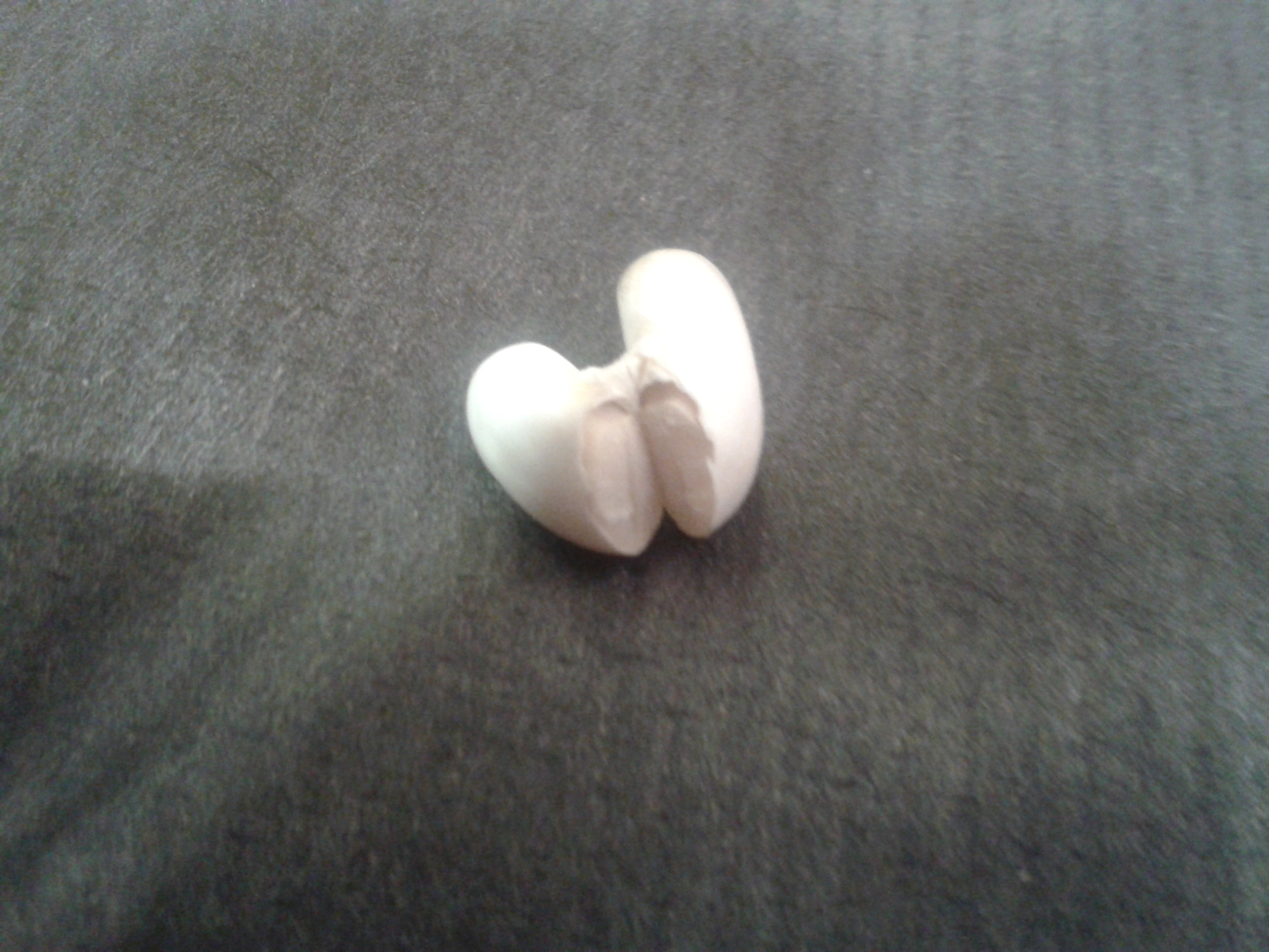 Mongeta del Ganxet, a kind of Bean in Catalunya.